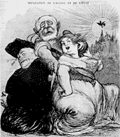 This caricature represents the w:1905 law on secularity in France, and more info is found there about its legal state.